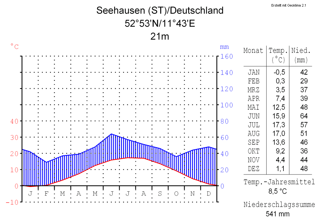 climate chart in the format by Walter and Lieth, metric, °Celsisus and millimeters, made with Geoklima 2.1